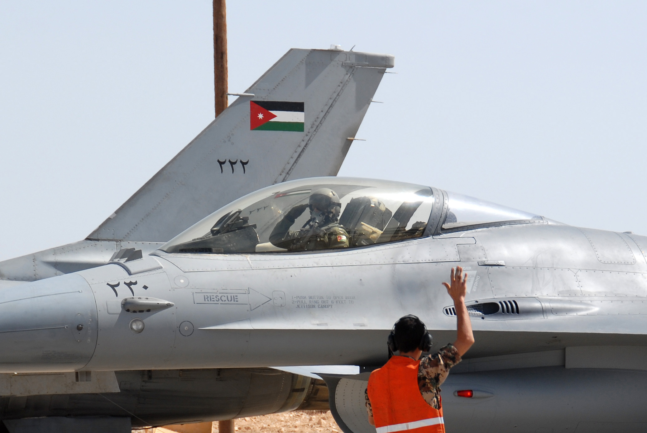 A Royal Jordanian Air Force pilot salutes his crew chief May 21, 2007, at the start of the first scored competition event, the formation arrival, during the 2007 Falcon Air Meet (FAM) in Azraq, Jordan. The FAM was founded by Jordan's Royal Highness Prince Feisal Bin Al Hussein to get F-16 users in the region to exercise and exchange information. Participating in the 2007 FAM are air forces from Jordan, Turkey, Belgium and the United States.